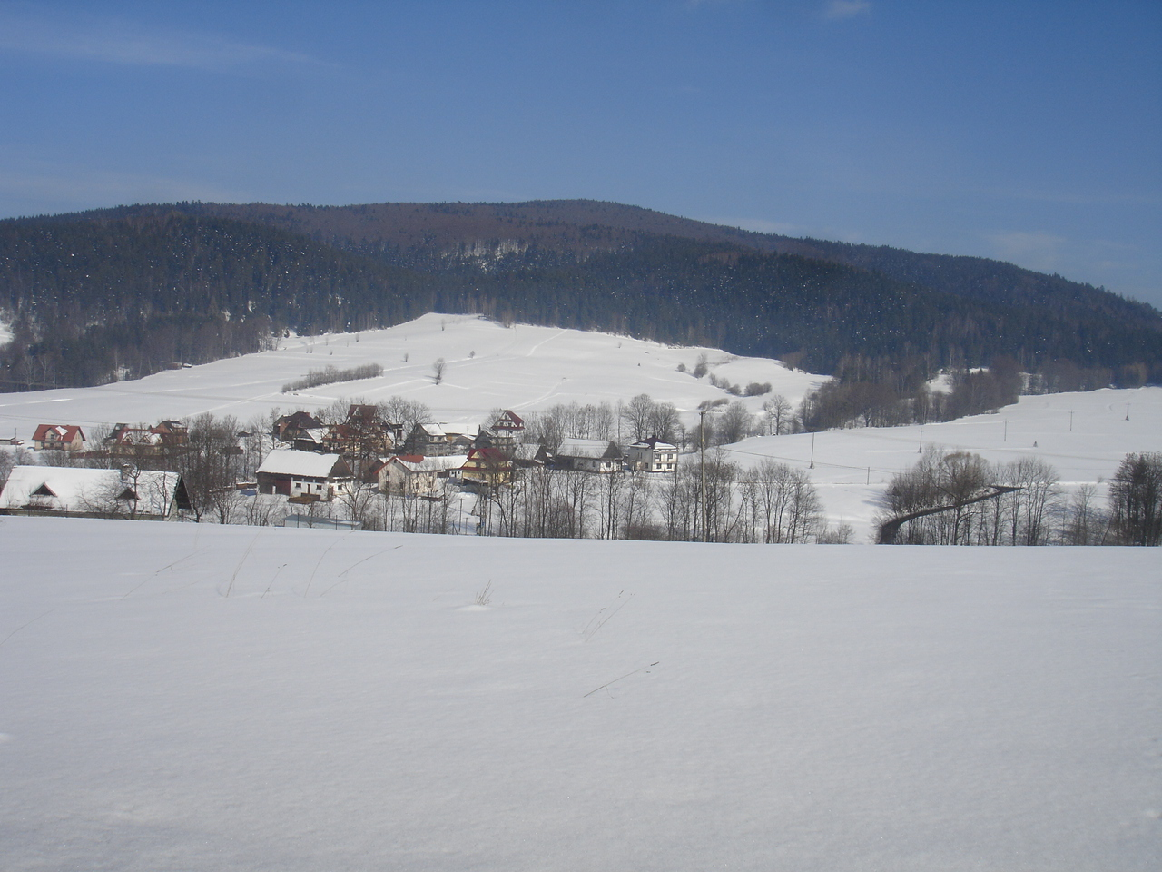 polish village Kasina Wielka